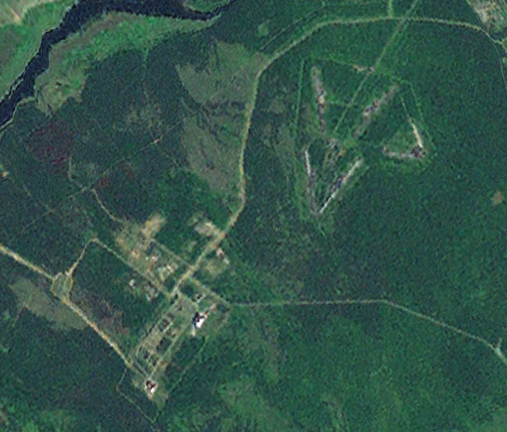 Soviet/Russian radar station at Mishelevka, Irkutsk, Siberia, Russia. Public domain aerial photography from NASA World Wind - i-cubed landsat layer.